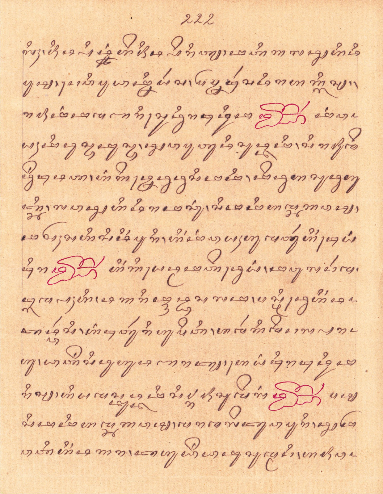 Throughout Asia, the stories of the hero Amir Hamzah, a noble and brave companion and also the uncle of the Prophet Muhammad, have been very popular with people of all ages due to their romantic as well as philosophical content. The stories are originally Persian, but came to the Malay and Javanese world via India. They celebrate the triumph of Islam and trace Hamzah's conquests in love and war, often coupled with fantastic elements and sequences. The text is actually written poetic stanzas in sections of different poetic metres. The beautiful handwritten red symbol marks the beginning of a new stanza in the poetic text. The brown colored sheet has writing on both sides using a distinctive brownish-black ink. It is made of thin paper. While some have suggested a 19th century date for this manuscript, Dr. Timothy Behrend, a professor of Indonesian Studies at the University of Auckland, New Zealand, and an expert on Javanese literature and manuscripts, has more reliably suggested a date of early 20th century for this manuscript, based on laylines and chainlines (which are the horizontal and vertical watermark lines) in the paper used. Its size is about 6 3/4 in. x 8 1/4 in. Each side is ruled with a vertical line in the left column that provided the point for the scribe to begin the lines, since the writing is done from the left to the right of each line, just as in English.